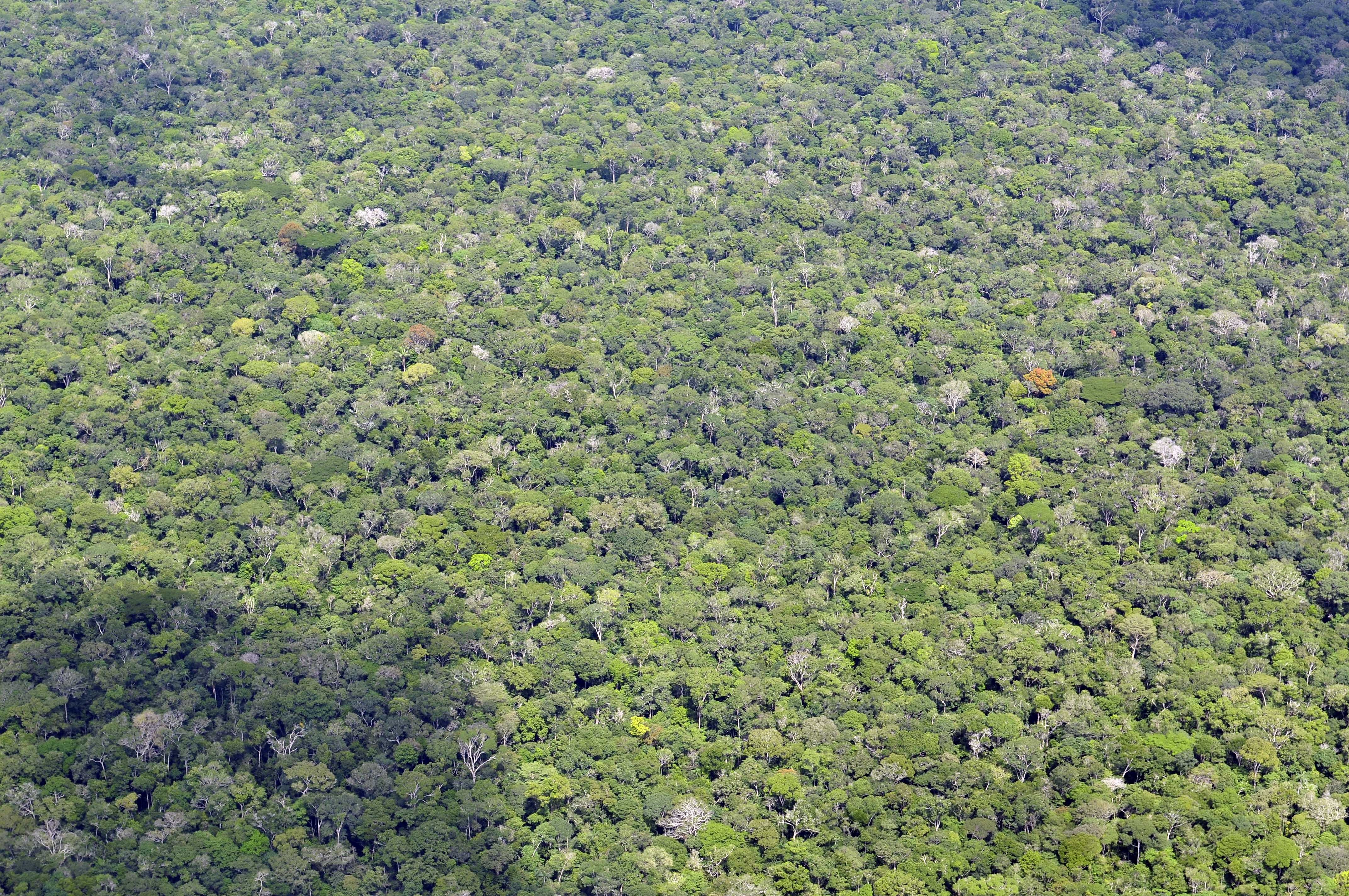 Pic by Neil Palmer (CIAT). Aerial view of the Amazon Rainforest, near Manaus, the capital of the Brazilian state of Amazonas. Please credit accordingly.